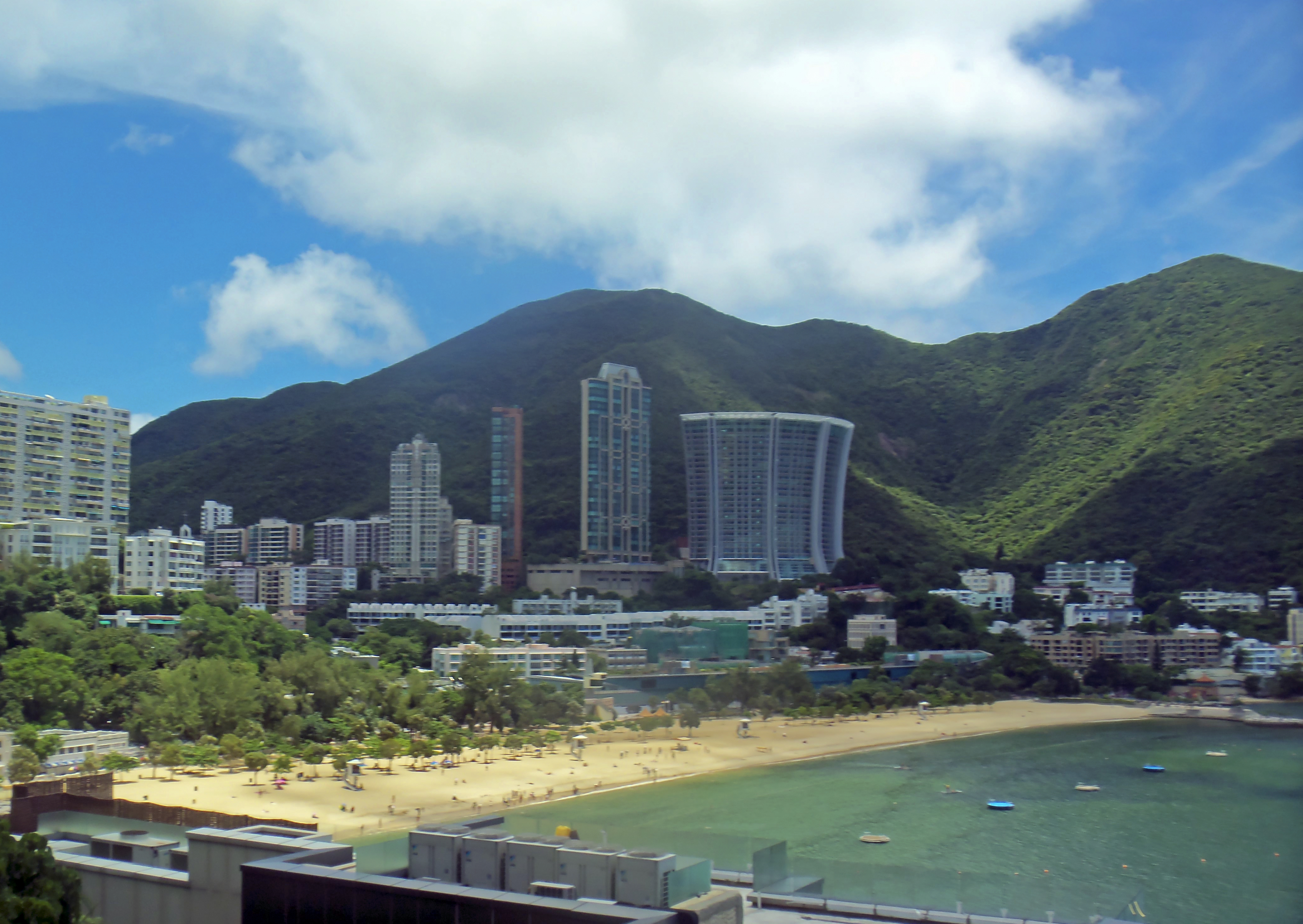 Repulse Bay seen from the #260 bus along Repulse Bay Road to west